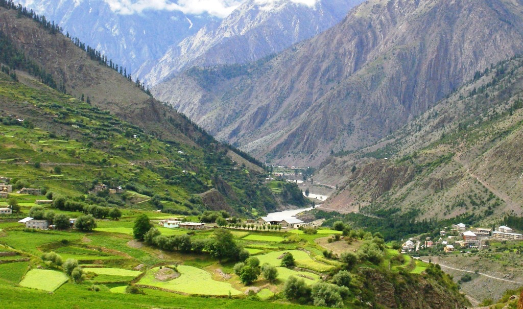 A Village near Trilokinath temple, Lahaul.